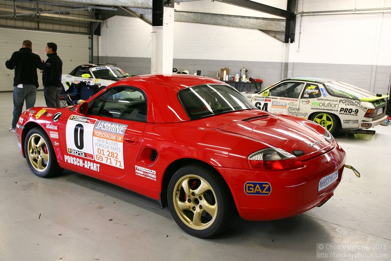 A Production-spec race Boxster Toyo Tires BRSCC Porsche Championship, Silverstone National circuit, 11 and 12 May 2013